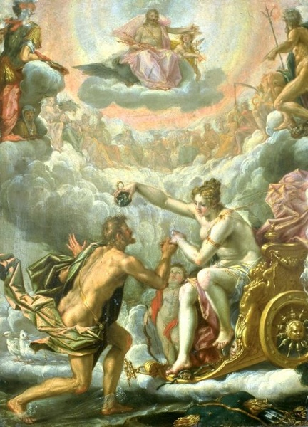 Venus leading Aeneas into Olympuslabel QS:Len,"Venus leading Aeneas into Olympus"